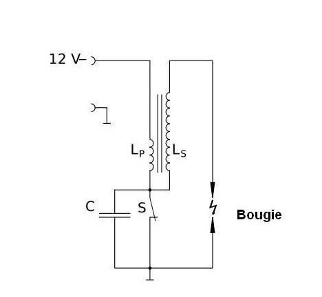 Ignition system